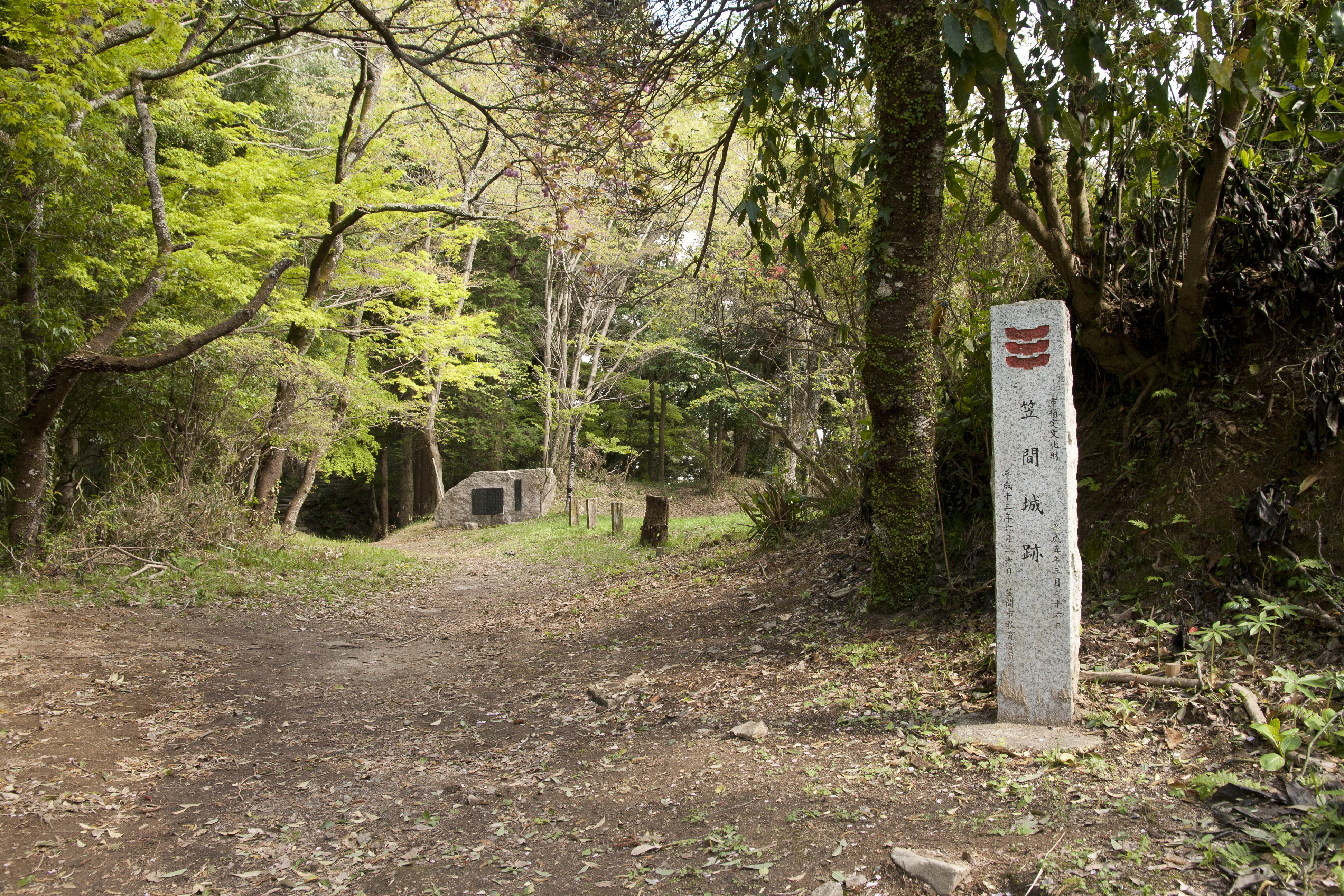 Kasama Castle Ruins, Kasama City, Ibaraki Pref., Japan